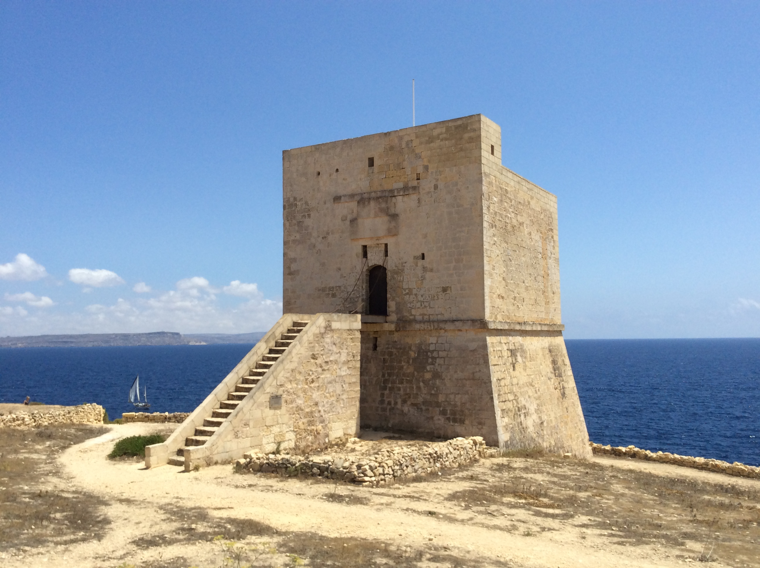 Mgarr ix-Xini Tower